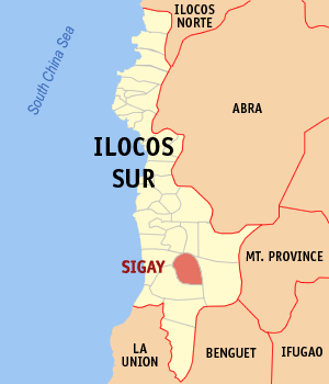 Map of Ilocos Sur showing the location of Sigay